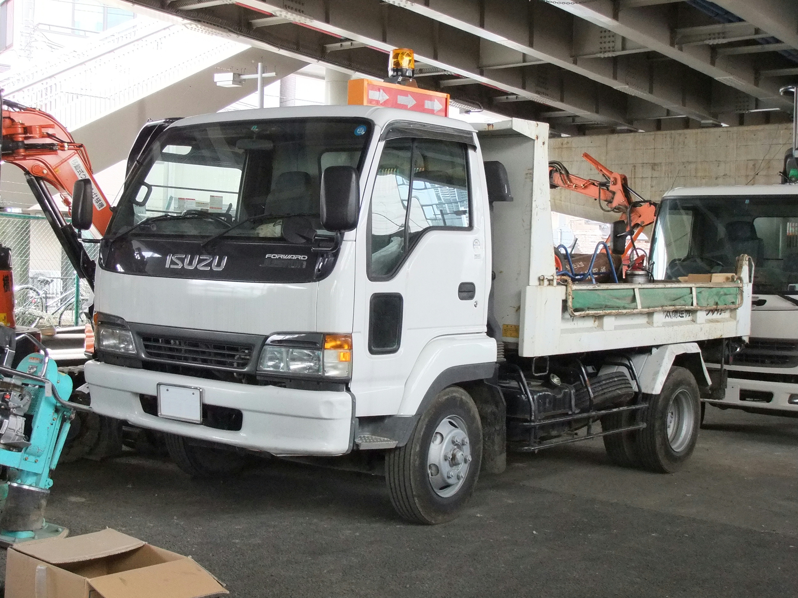 ISUZU, FORWARD JUSTON, （There are a country and a region sold as N-series excluding a Japanese market, too.）